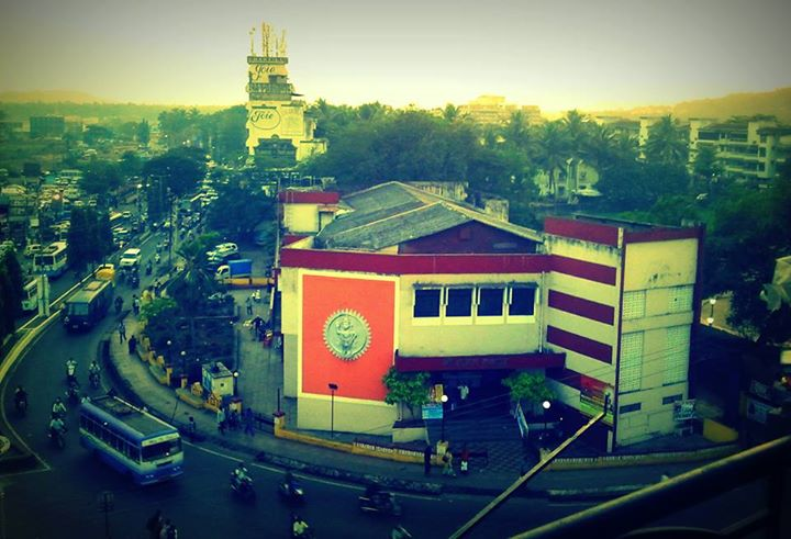 Hanuman Natyagruha